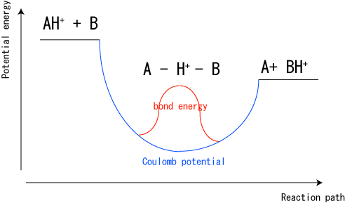 This figure shows the barrier-less reaction of ion-molecular reaction.